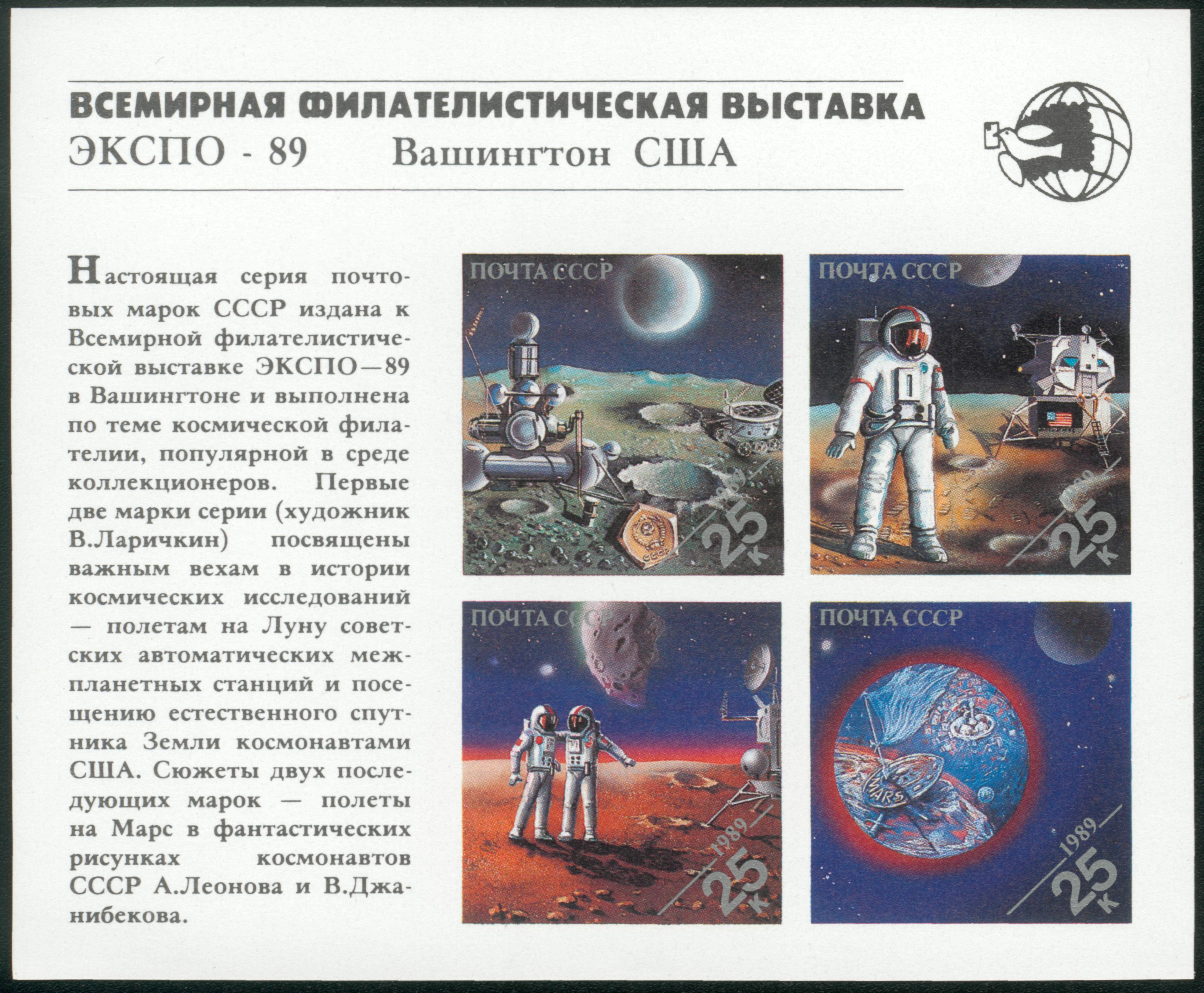 USSR-USA joint issue, miniature sheet, World Stamp Exhibition "Expo-89" of 1989